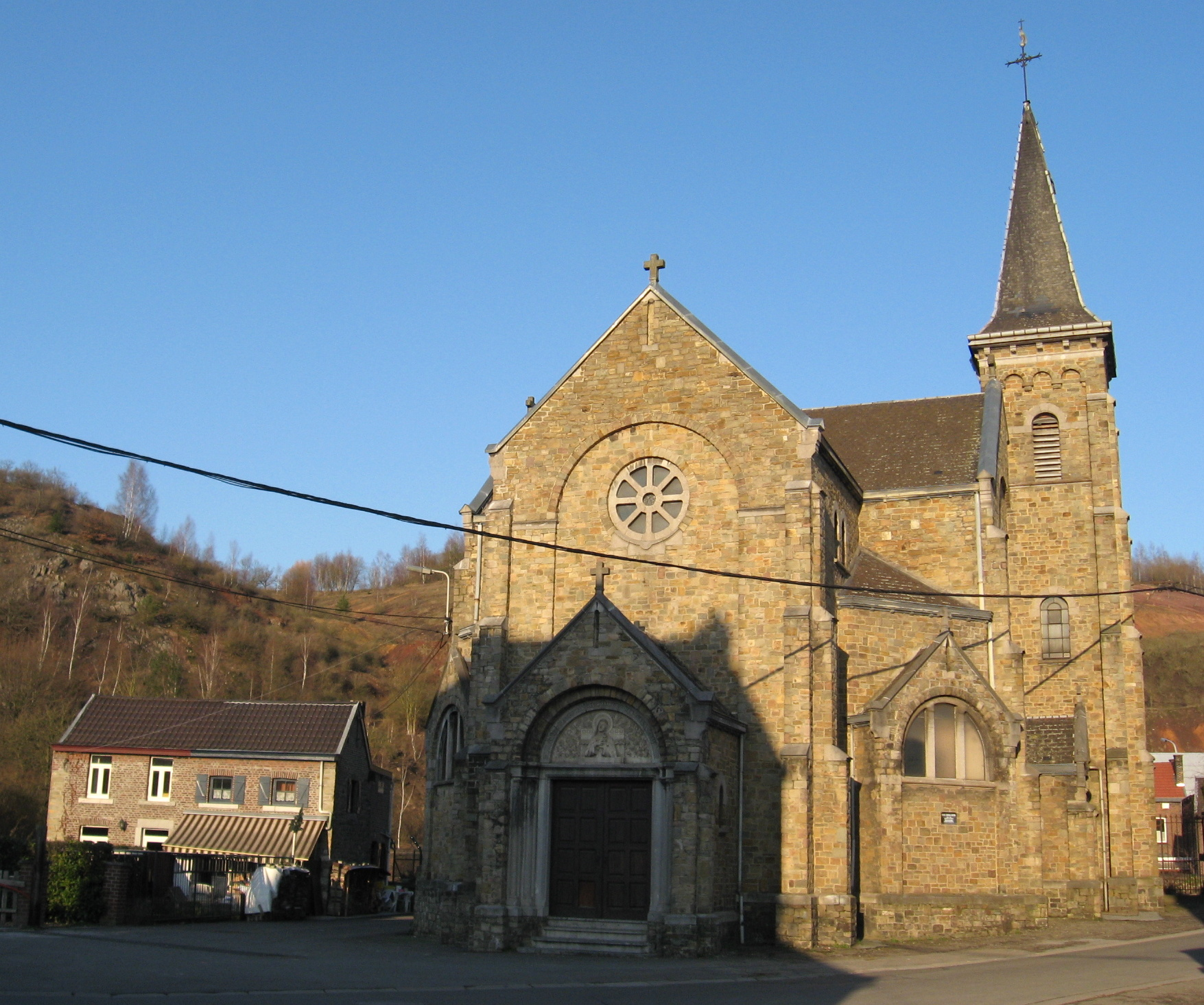 Chapel of ease of Saint Thérèse in La Brouck, Forêt, Trooz, Liège, Belgium